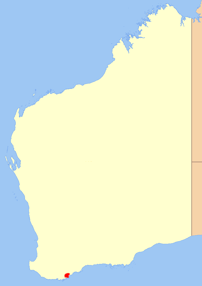 Map showing where Gilbert's Potoroo can be found in Western Australia.